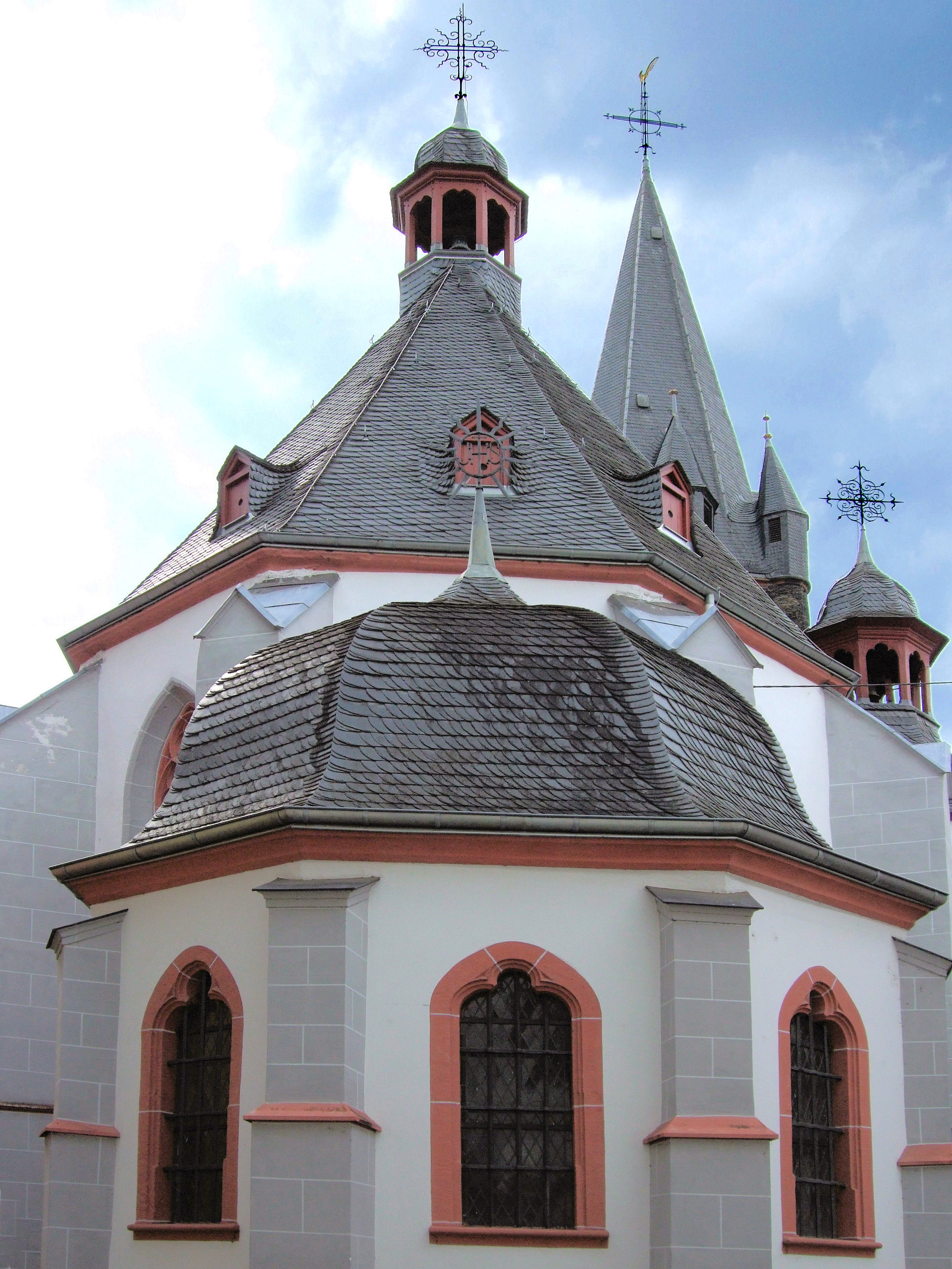 Saint Michael's Church, Bernkastel, Germany